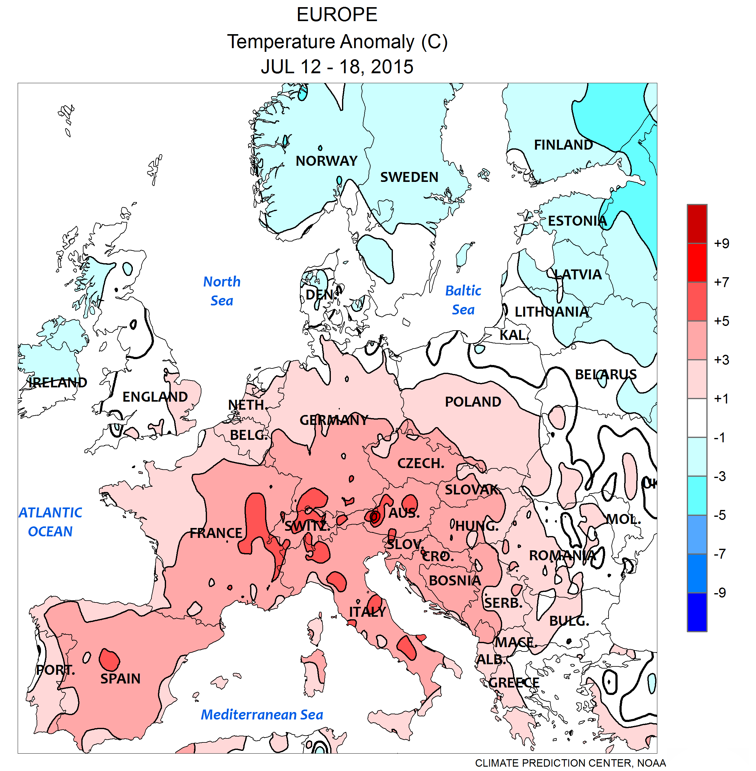 Europe: Temperature anomaly July 12 - 18, 2015, computer generated colours, based on preliminary data